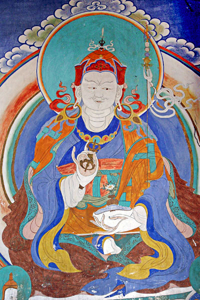 Padmasambhava. Wall painting at Wangdue Phodrang dzong (Bhutan)